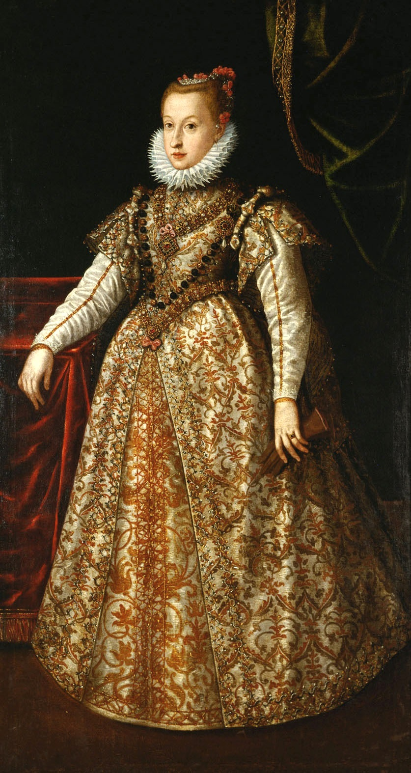 Portrait of Anna Juliana Gonzaga (1566-1621)